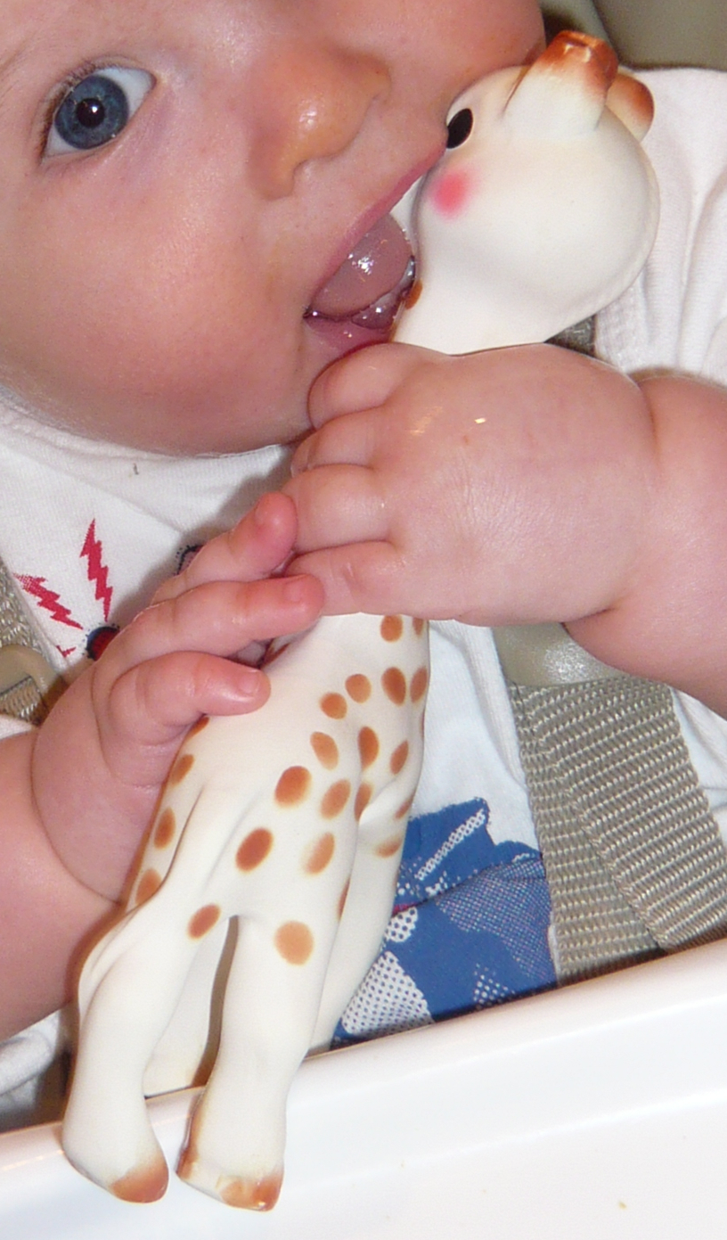 David and Isaac love Sophie the Giraffe! Their top two teeth are coming in.